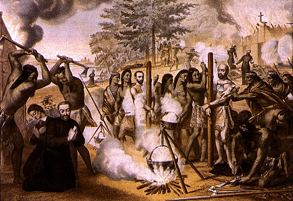 Canadian martyrs 1649